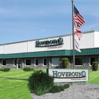 Hoveround's Corporate offices are located in Sarasota, Florida